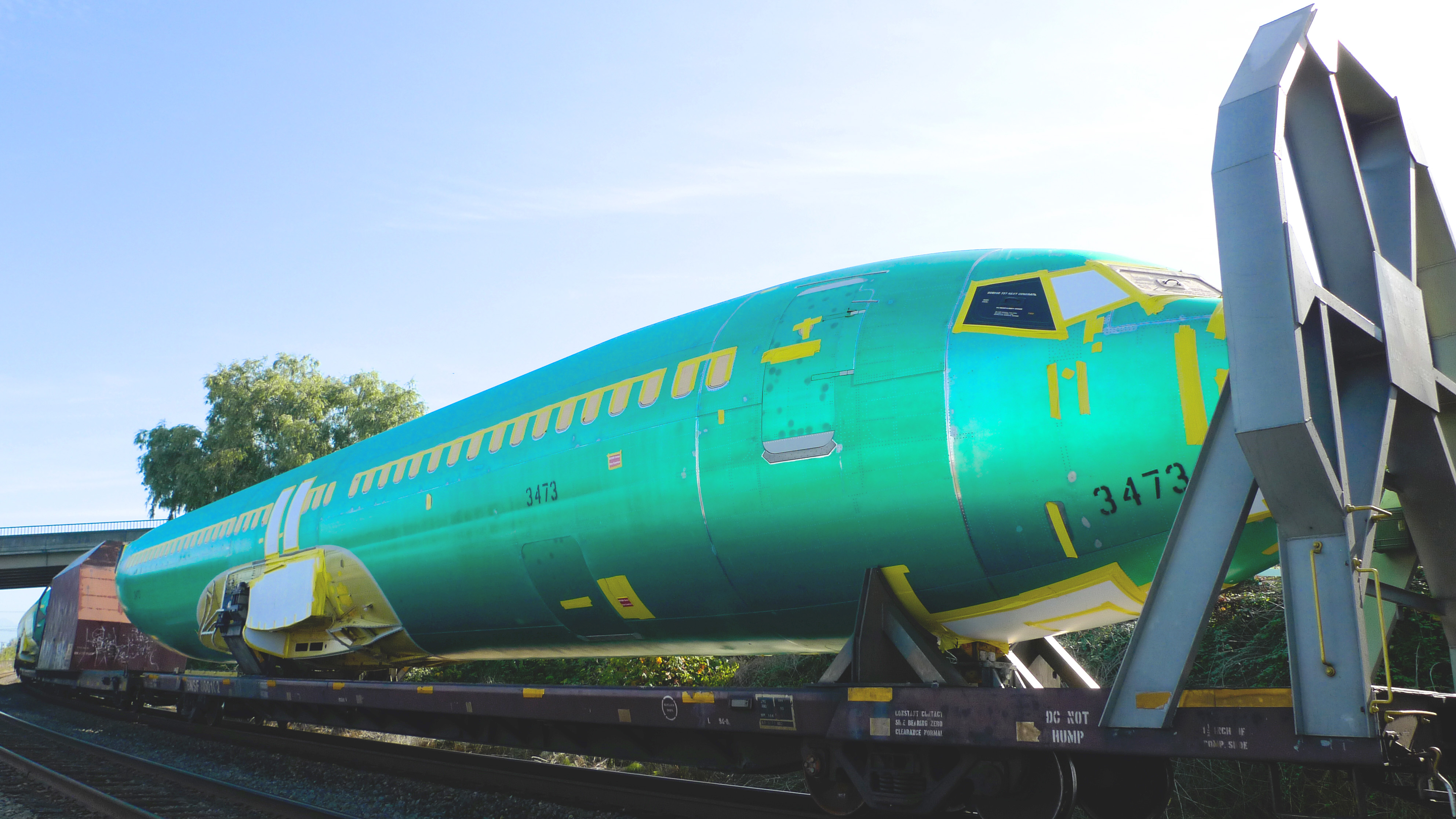 Boeing 737NG fuselages on train flatcars, being shipped to the Boeing factory at Renton, Washington. Fuselage No. 3473 in the foreground became Boeing 737-800 MSN 35837, first flight November 8, 2010 and delivered to GOL Linhas Aéreas of Brazil on November 22, 2010 as 737-8EH registration PR-GUE.